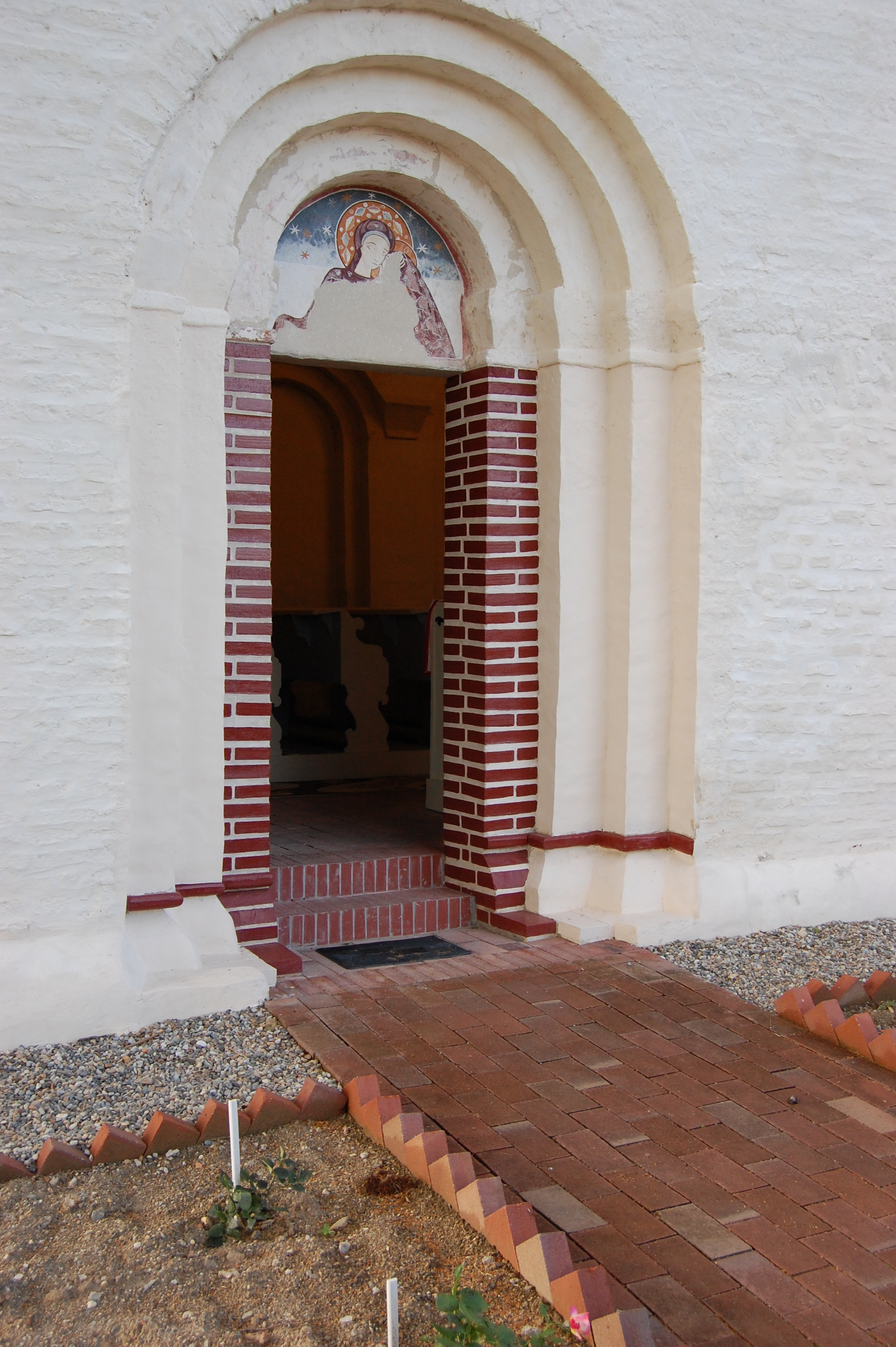 Reformed Curch in Uileacu Simleului (Romania), entrence